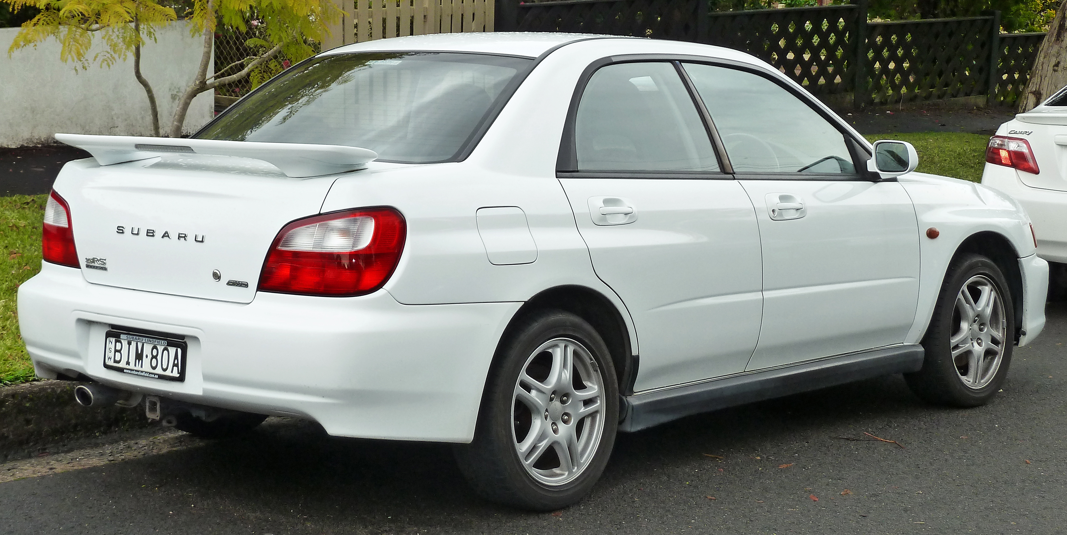 2001–2002 Subaru Impreza (GDE MY02) RS sedan. Photographed in Gordon, New South Wales, Australia.